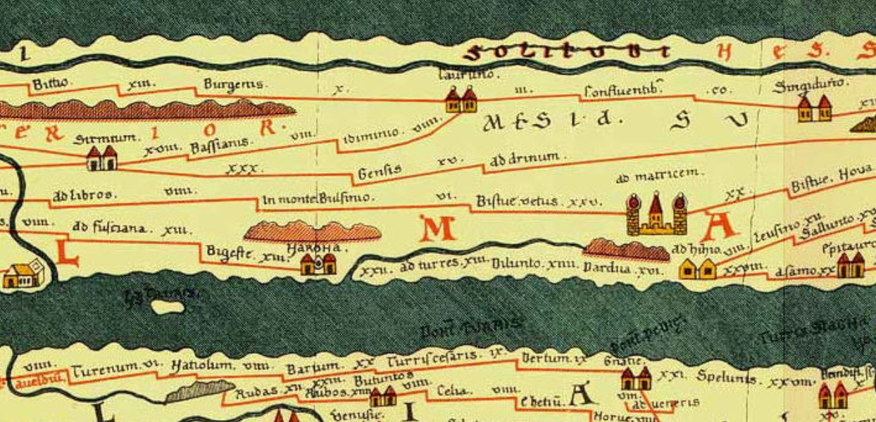 TabulaPeutingeriana, 1-4th century CE. Facsimile edition by Conradi Millieri, 1887/1888